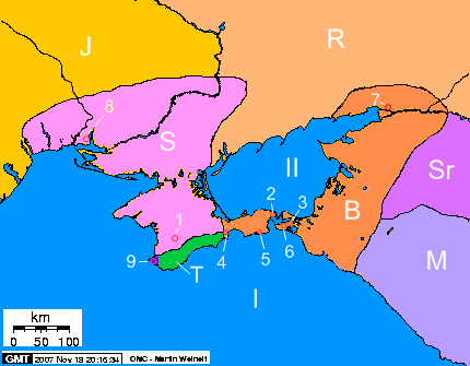 The map of Crimea, 2 century BC